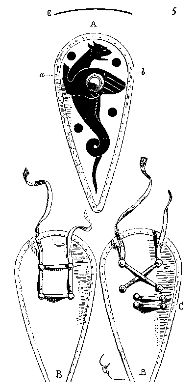 Ecu normand recto verso